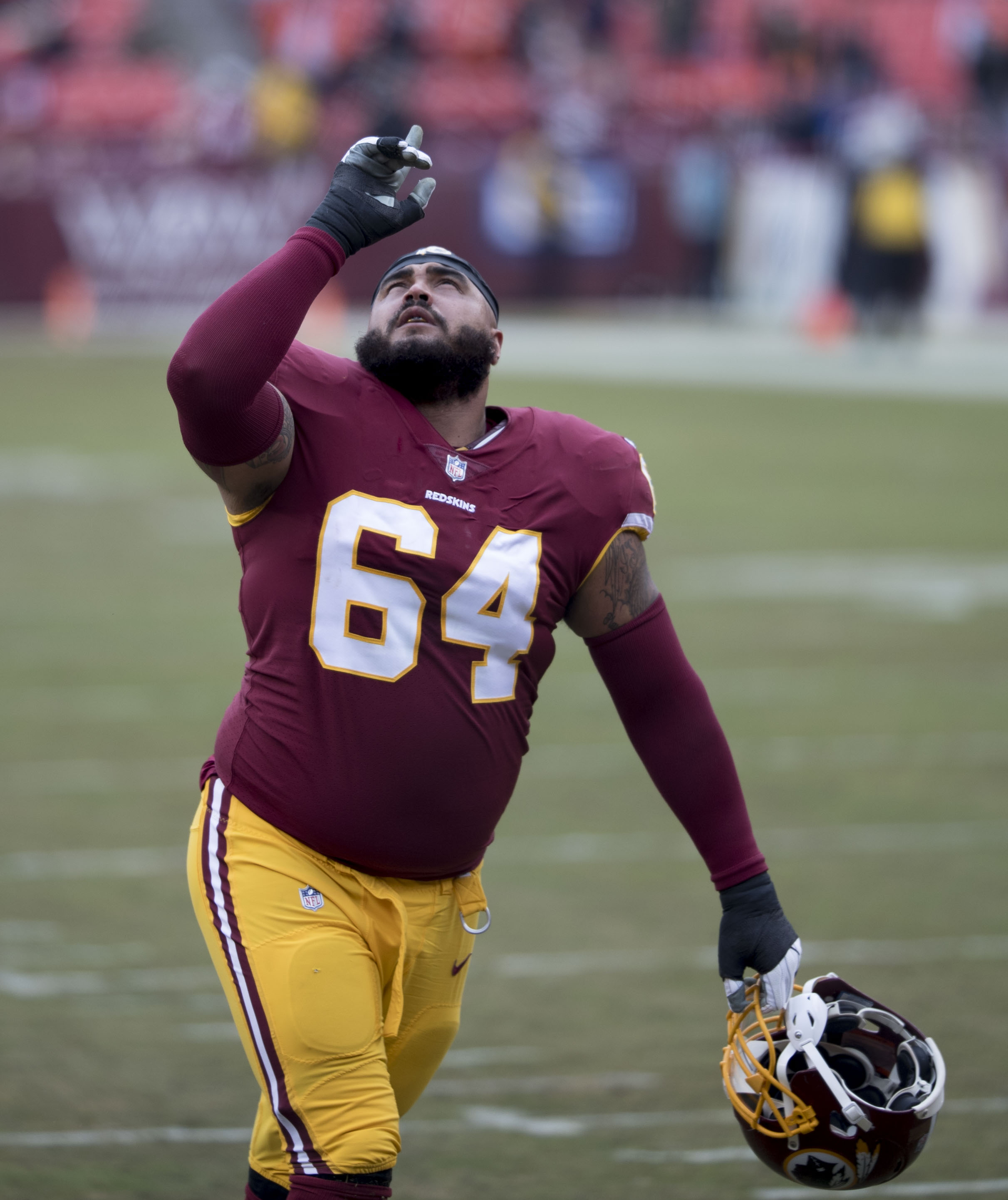 Broncos at Redskins 12/24/17